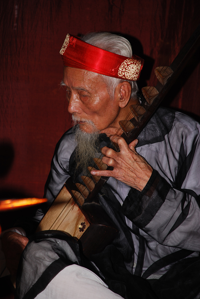 An old man wearing khan dong ao dai and playing dan day.